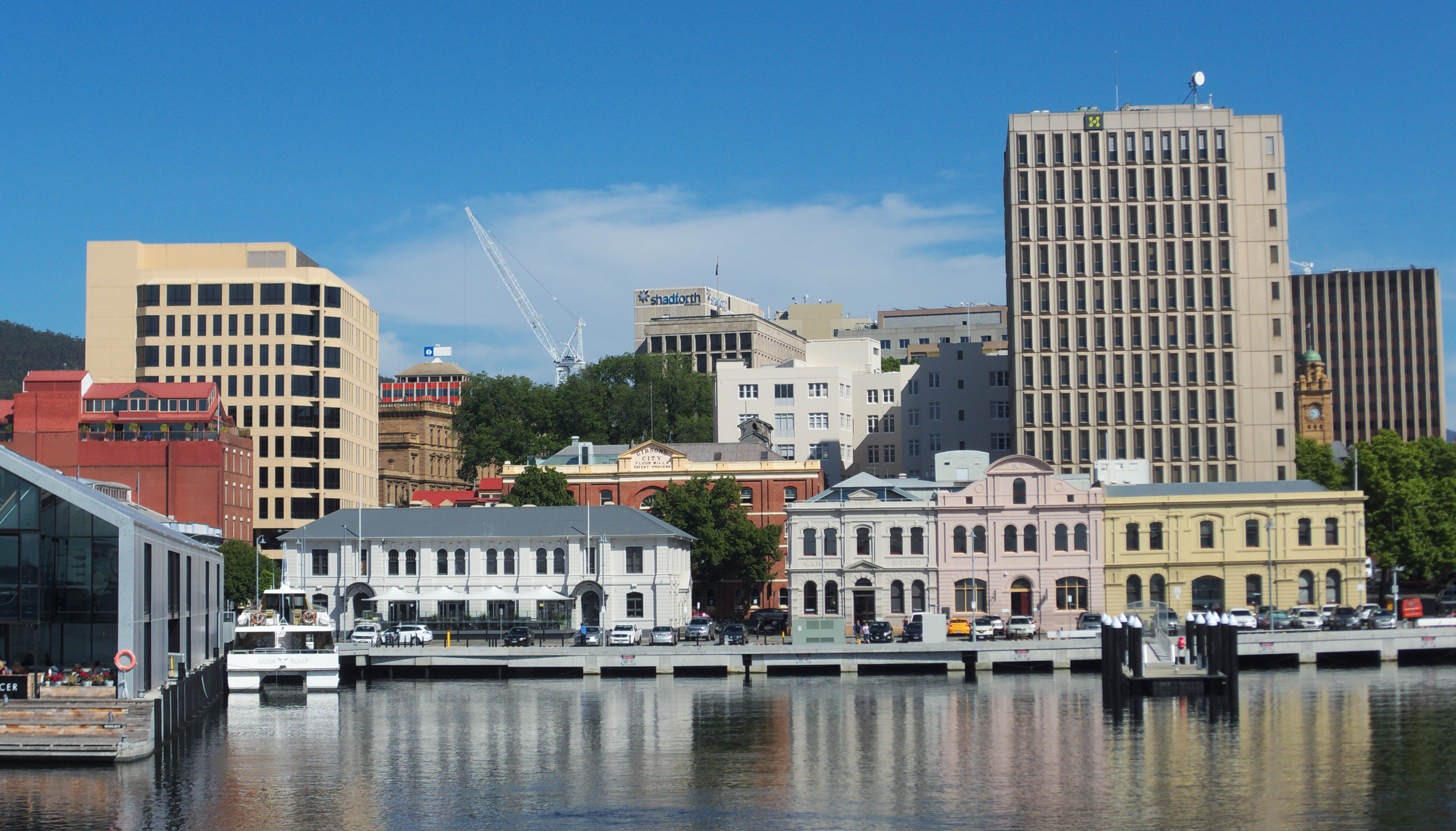 Buildings on Franklin Wharf Hobart, with Brooke Street Pier on the left and the Hydro Building on the right.